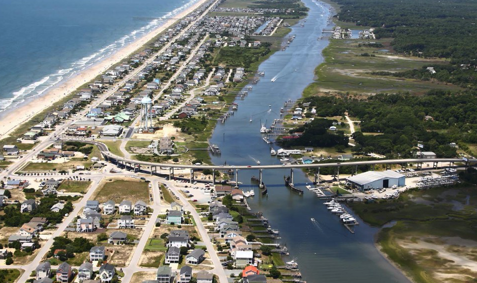 Cropped/enhanced version of the photo contained on File:Holden_Beach_Bridge_(ASCE).png